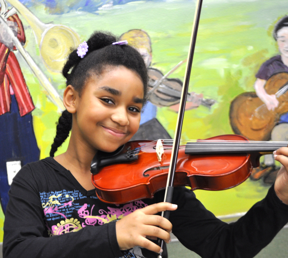 An ETM-LA student poses with her violin